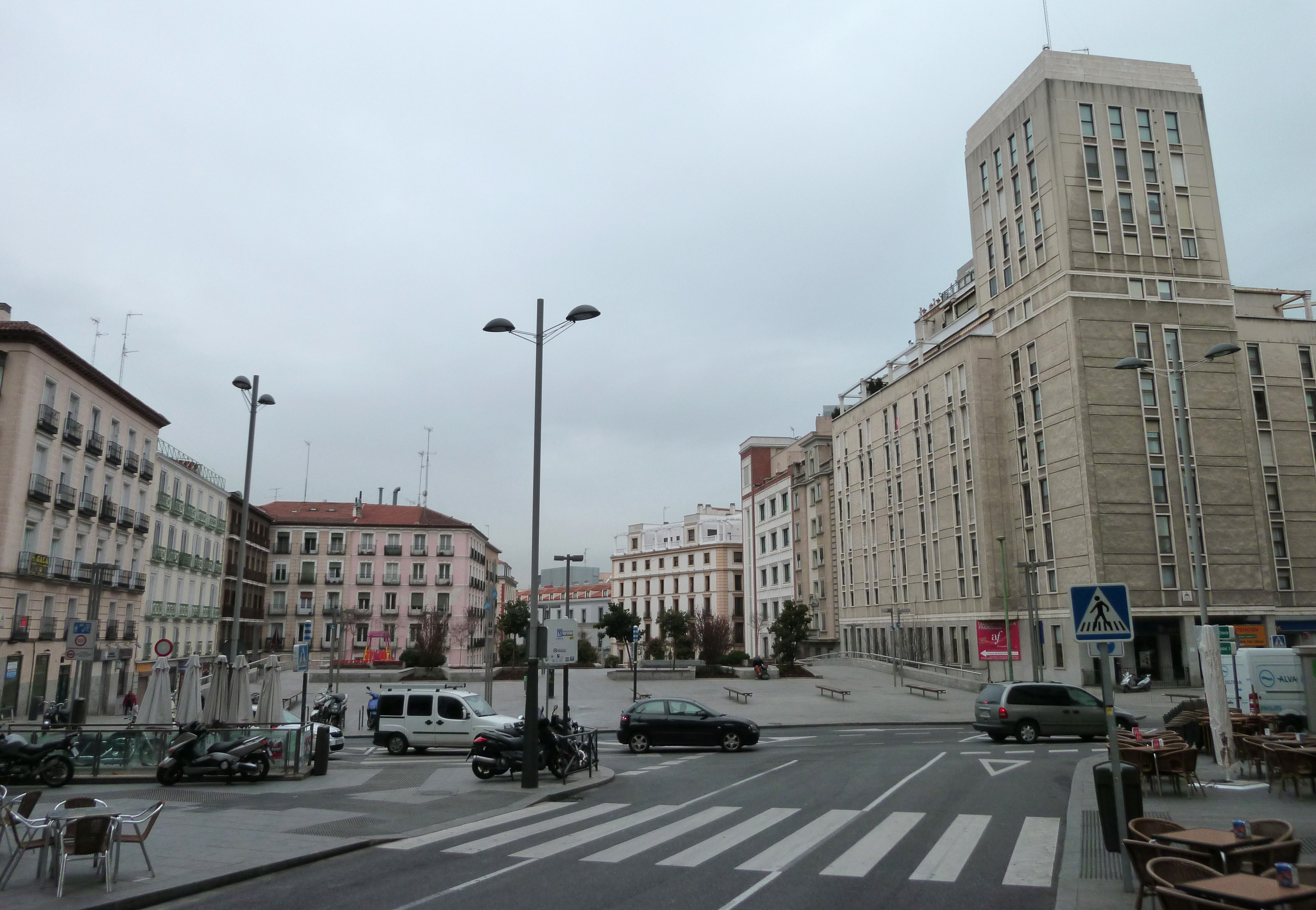 View of Plaza de Santo Domingo (a square in Centro district) in Madrid (Spain) from Calle de Jacometrezo (street).